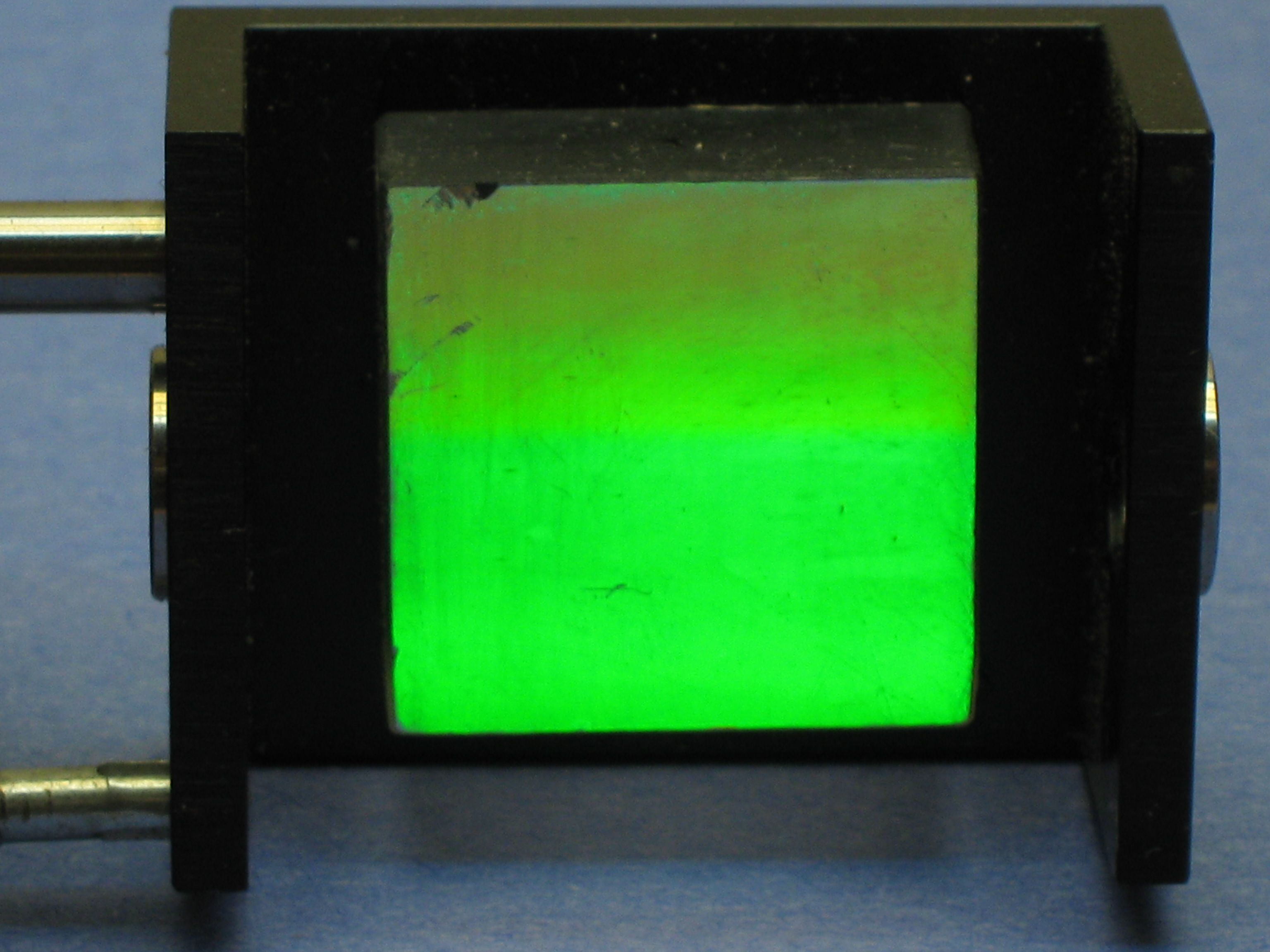 A diffraction grating, positioned at just the right angle, will separate light into various colors. In this photo, the angle has been adjusted to show the strong green bands emitted by the fluorescent lighting.